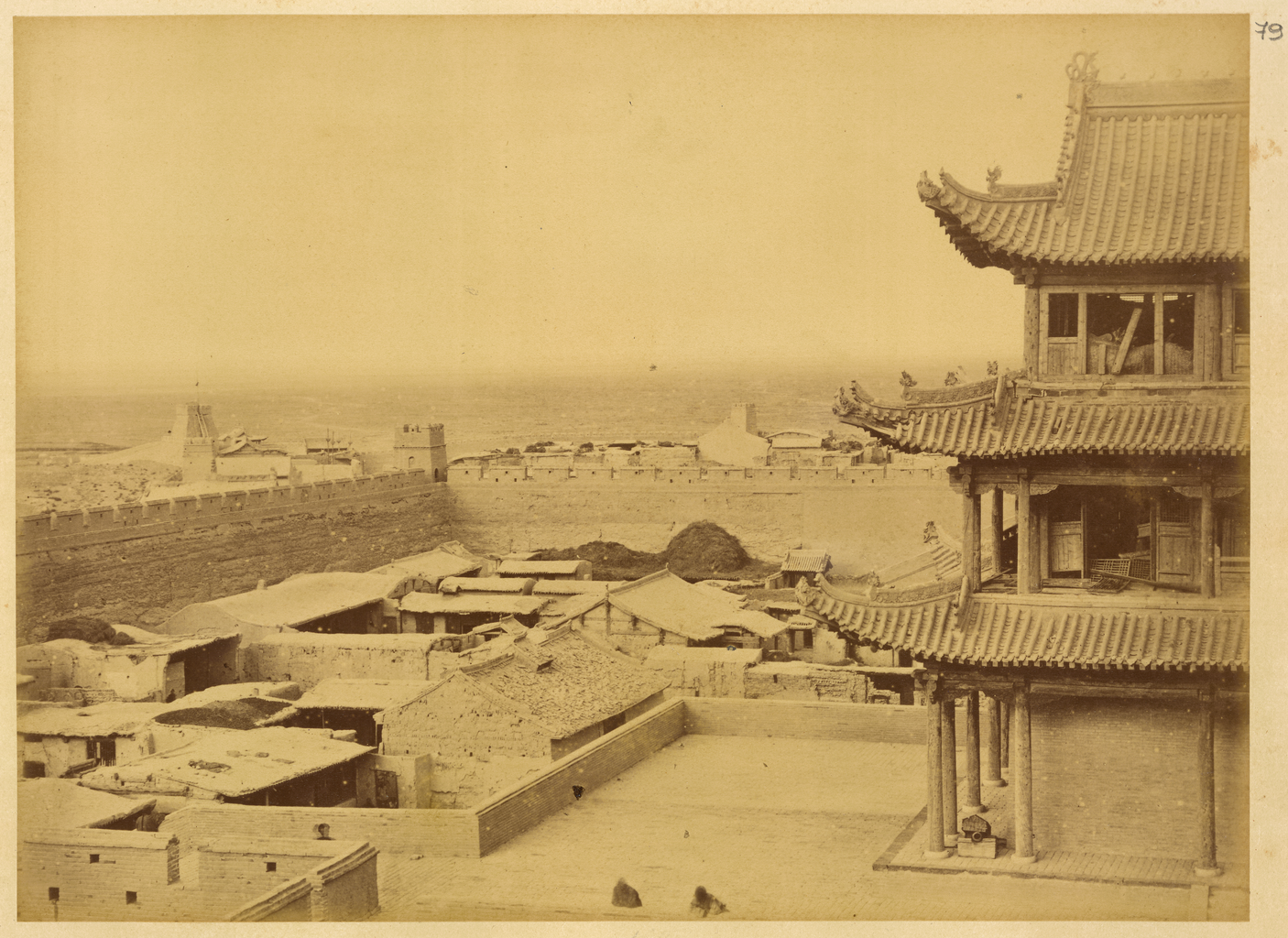 In 1874-75, the Russian government sent a research and trading mission to China to seek out new overland routes to the Chinese market, report on prospects for increased commerce and locations for consulates and factories, and gather information about the Dungan Revolt then raging in parts of western China. Led by Lieutenant Colonel Iulian A. Sosnovskii of the army General Staff, the nine-man mission included a topographer, Captain Matusovskii; a scientific officer, Dr. Pavel Iakovlevich Piasetskii; Chinese and Russian interpreters; three non-commissioned Cossack soldiers; and the mission photographer, Adolf Erazmovich Boiarskii. The mission proceeded from Saint Petersburg to Shanghai via Ulan Bator (Mongolia), Beijing, and Tianjin, and then followed a route along the Yangtze River, along the Great Silk Road through the Hami oasis, to Lake Zaysan, back to Russia. Boiarskii took some 200 photographs, which constitute a unique resource for the study of China in this period. Most of the photographs are included in this album, which later became part of the Thereza Christina Maria Collection assembled by Emperor Pedro II of Brazil and given by him to the National Library of Brazil. Cities and towns; City walls; Forts and fortifications; Memory of the World; Towers